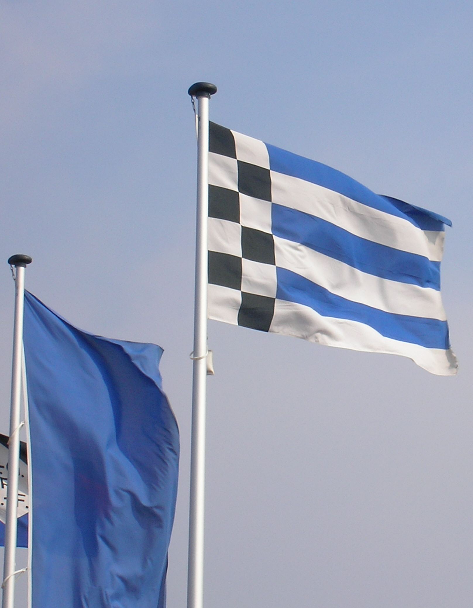 Flagg of Norderney in the Wind